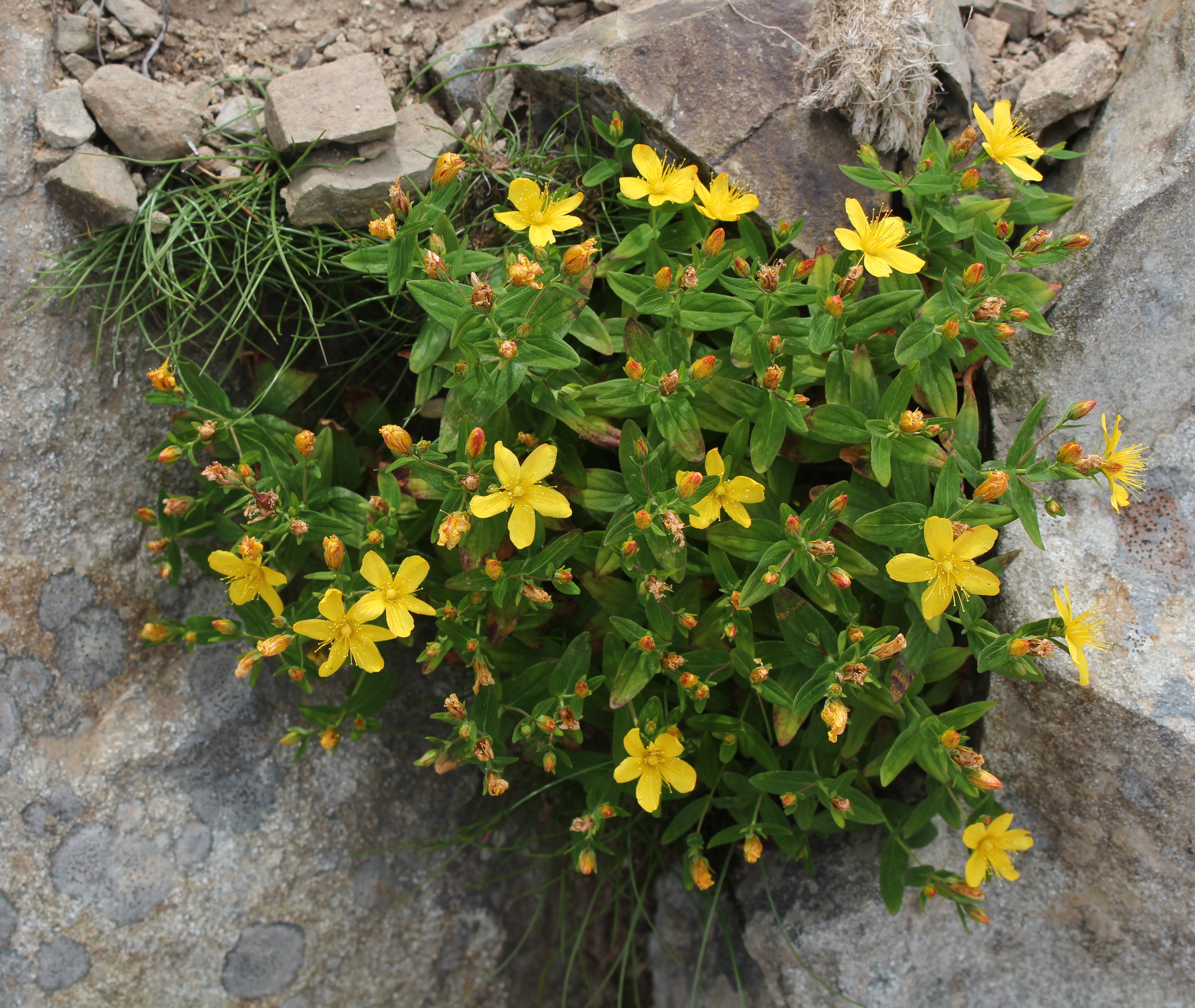 Hypericum senanense Maxim. subsp. senanense in Mount Yakushi, Toyama city, Toyama prefecture, Japan.